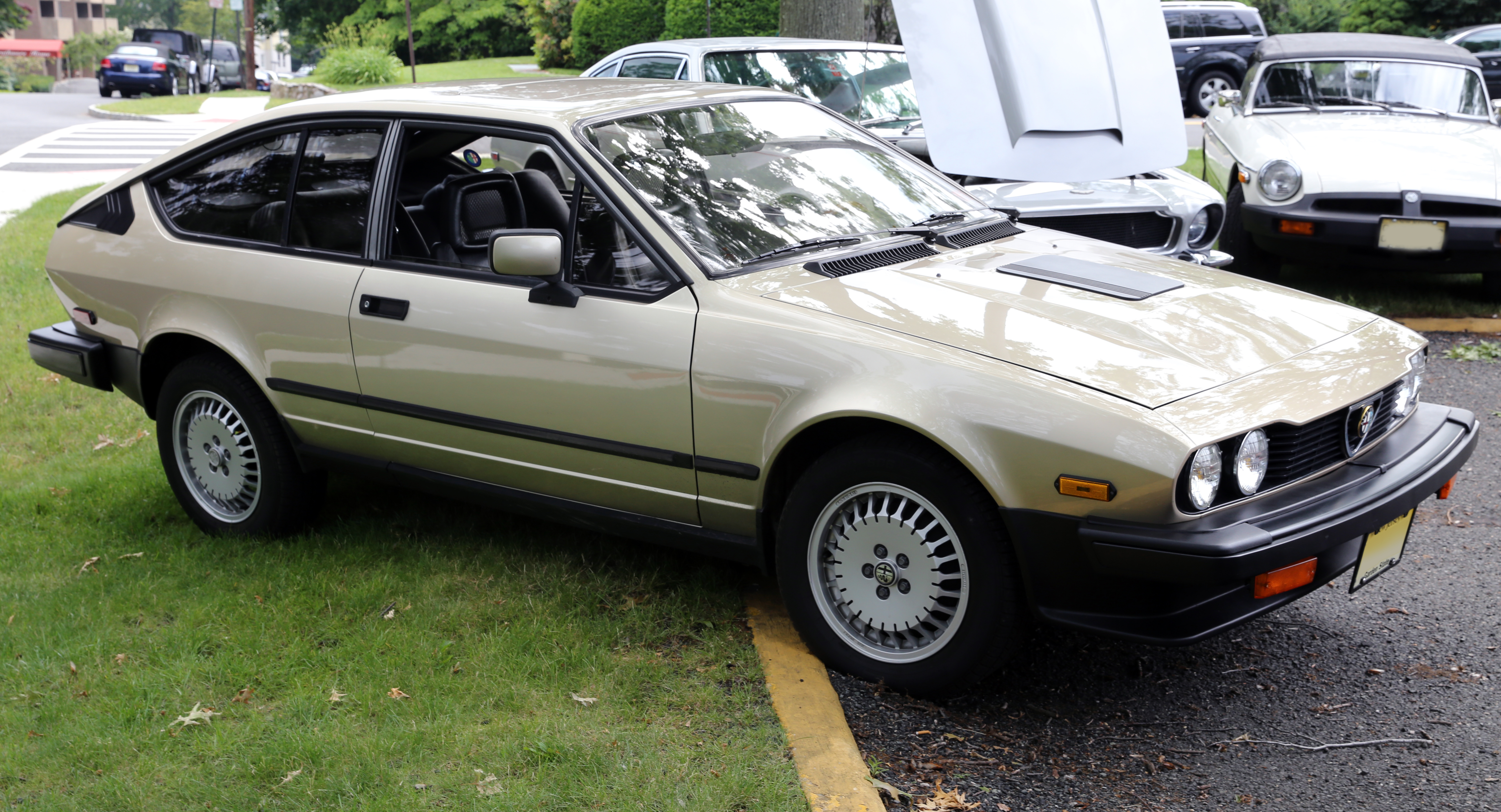 1986 Alfa Romeo GTV6 2.5, US spec version (tipo 116.69). This particular example was built in late 1985.